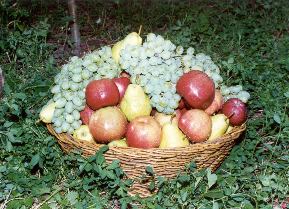 Fruit basket from Armenia.